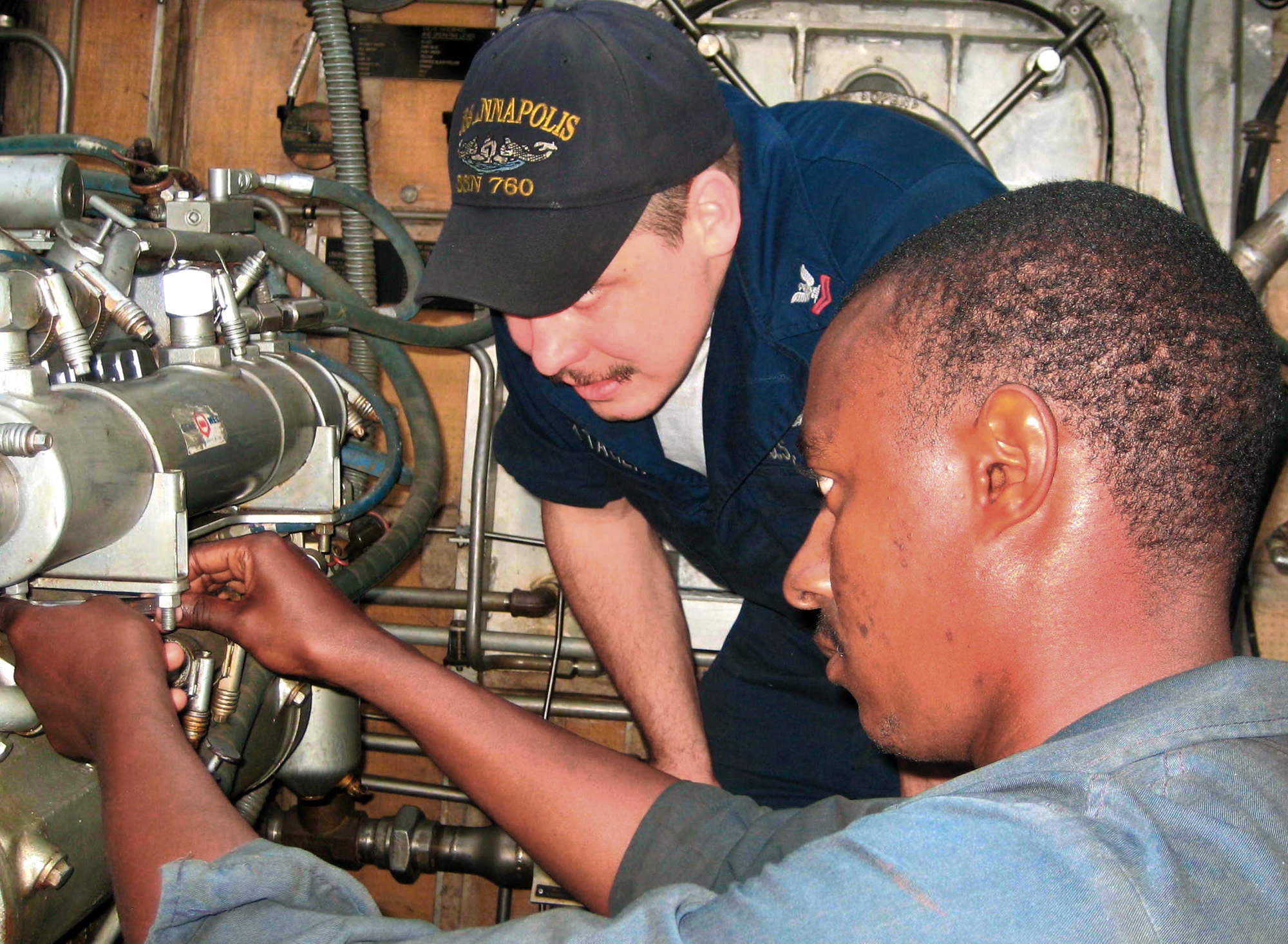 MINDELO, Cape Verde (Nov. 16, 2007) Machinist's Mate 2nd Class Luke Vontagen, a diesel technician assigned to USS Annapolis (SSN 760), works with a Cape Verdean Coast Guardsman to repair a propulsion engine on the patrol boat Espadarte D. Annapolis is part of the Africa Partnership Station (APS) initiative along with USS Fort McHenry (LSD 43). Both vessels are currently deployed to West and Central Africa to support an ongoing Sixth Fleet effort to improve maritime safety and security. APS is scheduled to bring international training teams to Senegal, Liberia, Ghana, Cameroon, Gabon, and Sao Tome and Principe, and will support more than 20 humanitarian assistance projects in addition to hosting information exchanges and training with regional partner nations. U.S. Navy photo (Released)